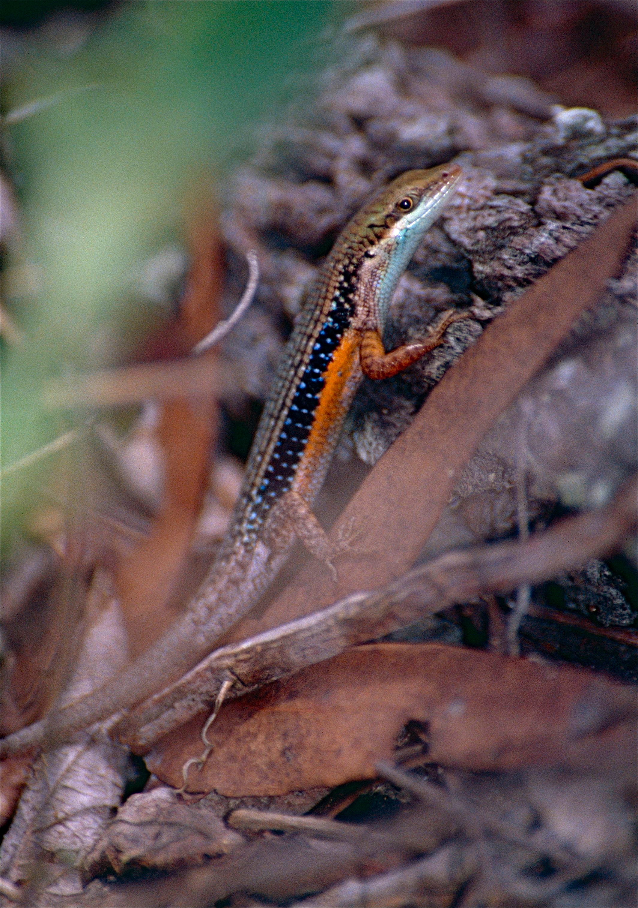 Mareeba Tropical Savanna and Wetland Reserve, Mareeba, North Queensland, AUSTRALIA Scanned Slide from Nov 2000